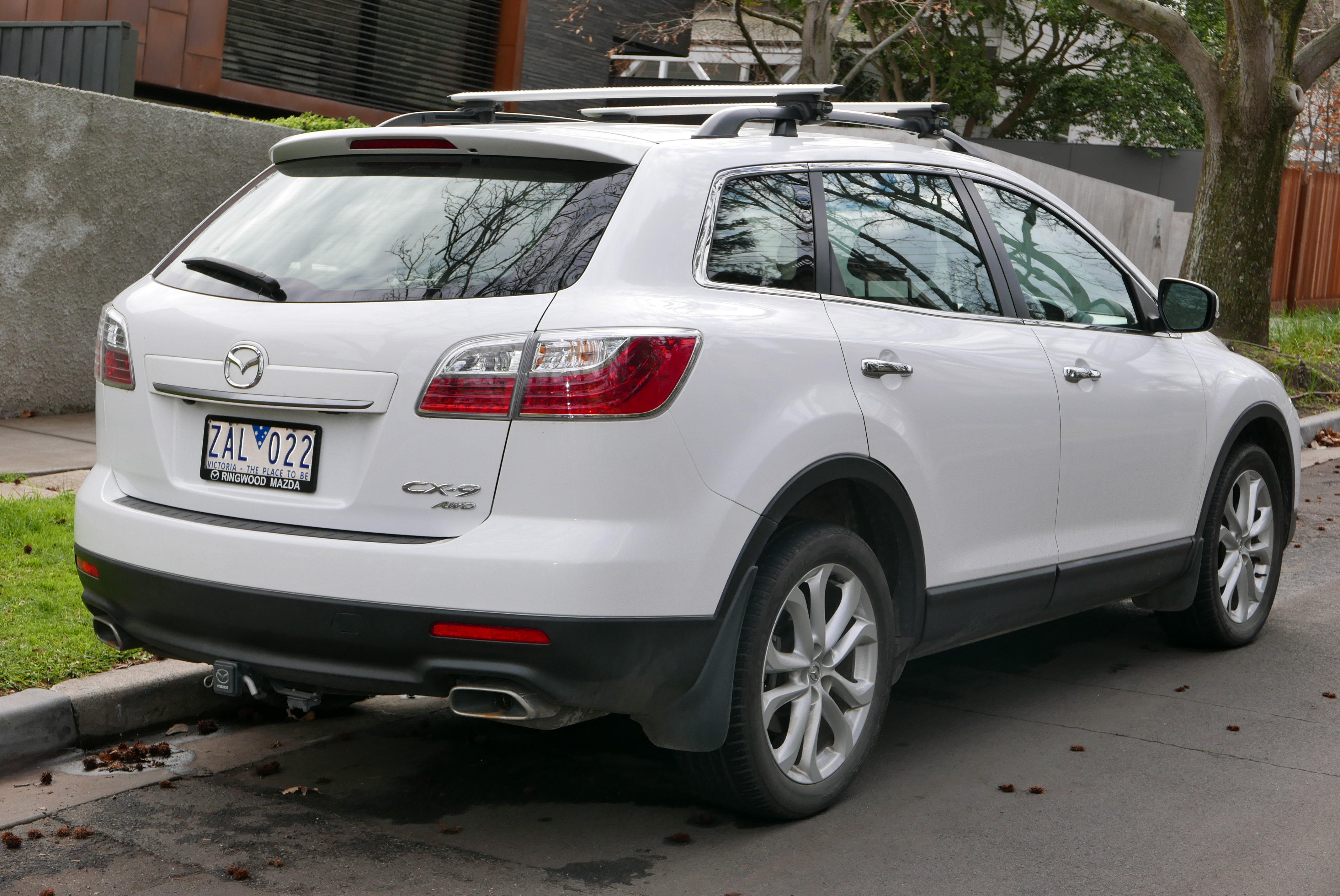 2012 Mazda CX-9 (TB Series 4 MY12) Grand Touring AWD wagon. Photographed in Hawthorn East, Victoria, Australia. Vehicle registration enquiry resultsJurisdictionVictoriaRegistrationZAL022Chassis codeJM0TB10A4C0313307Engine codeCA10427315Compliance date2012-03Year of manufacture2012